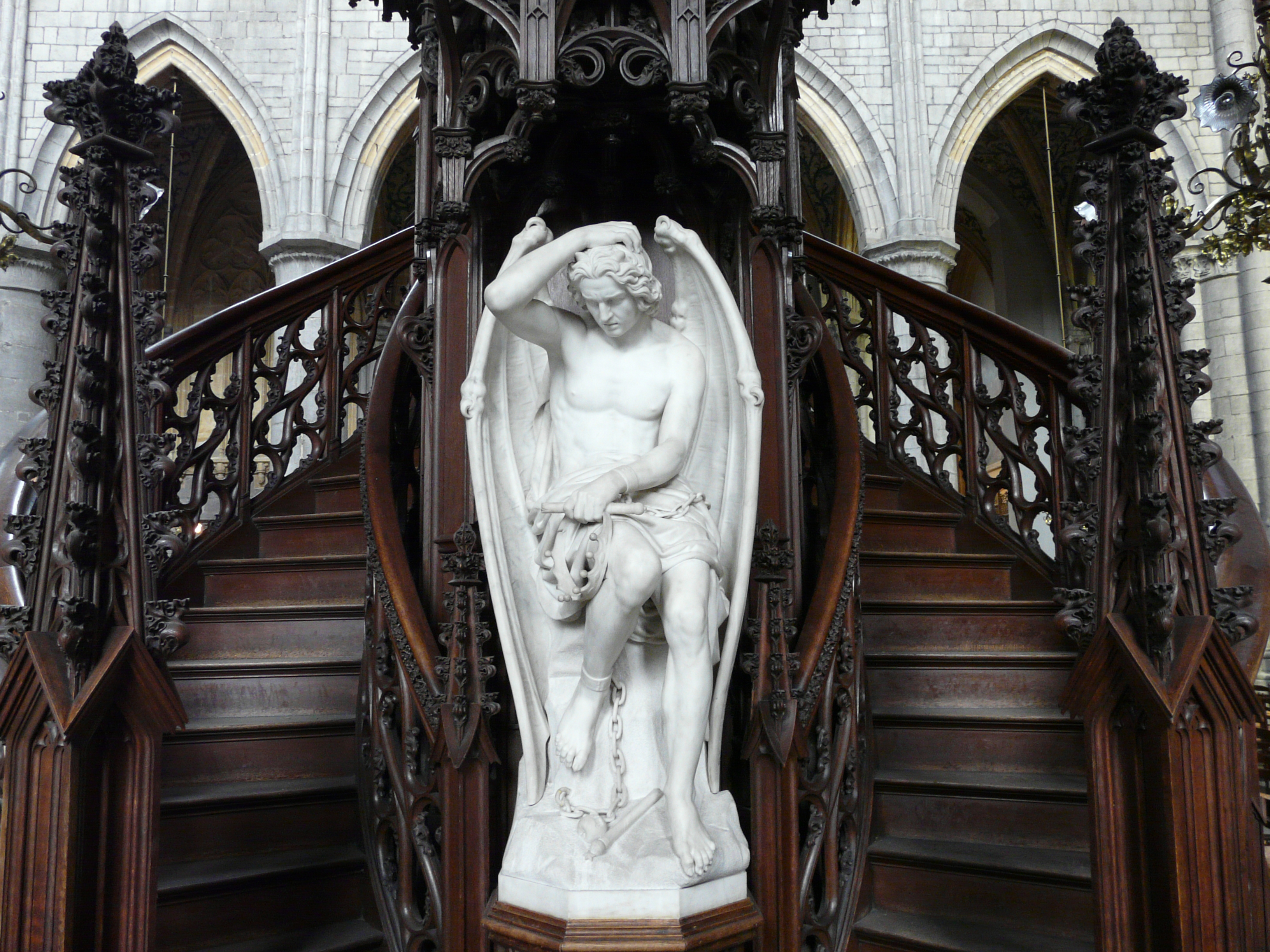 Statue of Lucifer